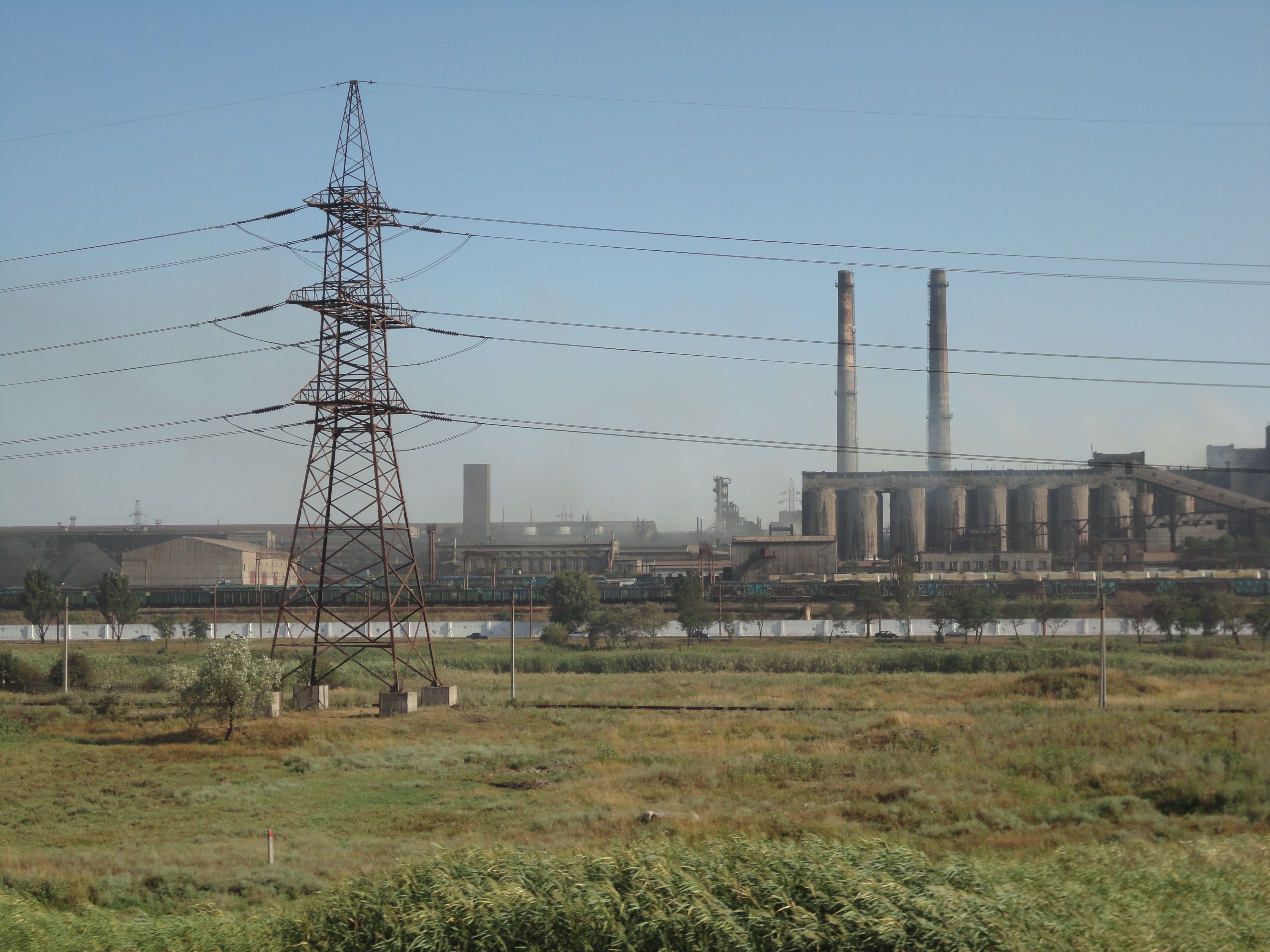 Mariupol,Illich Steel & Iron Works Маріуполь, Маріупольський металургійний комбінат імені Ілліча